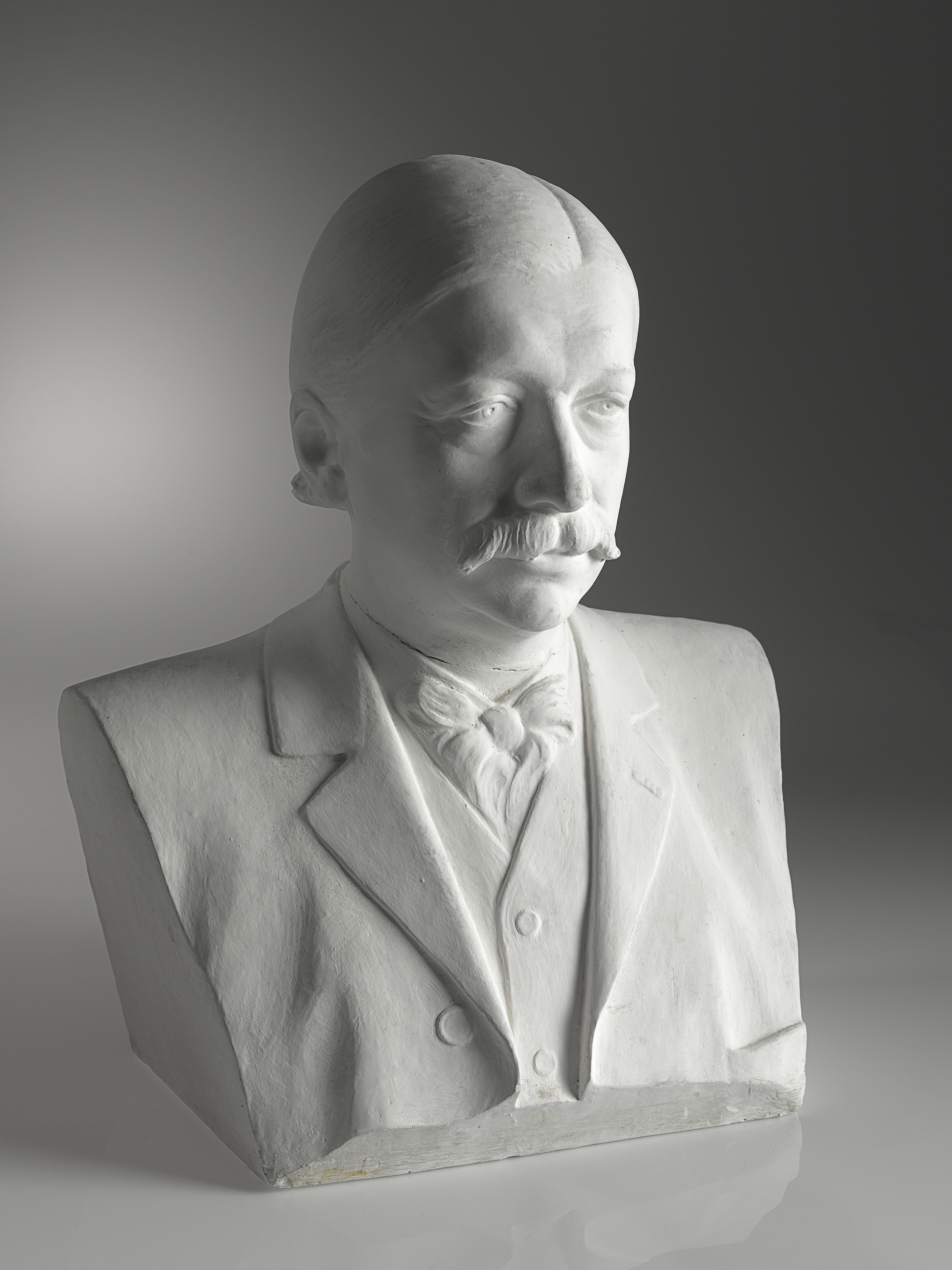 Bust of Pieter Klazes Pel (1852-1919) by Pier Pander (1864-1919). Owned by Amsterdam University; location 2015: Historsch Centrum Leeuwarden.